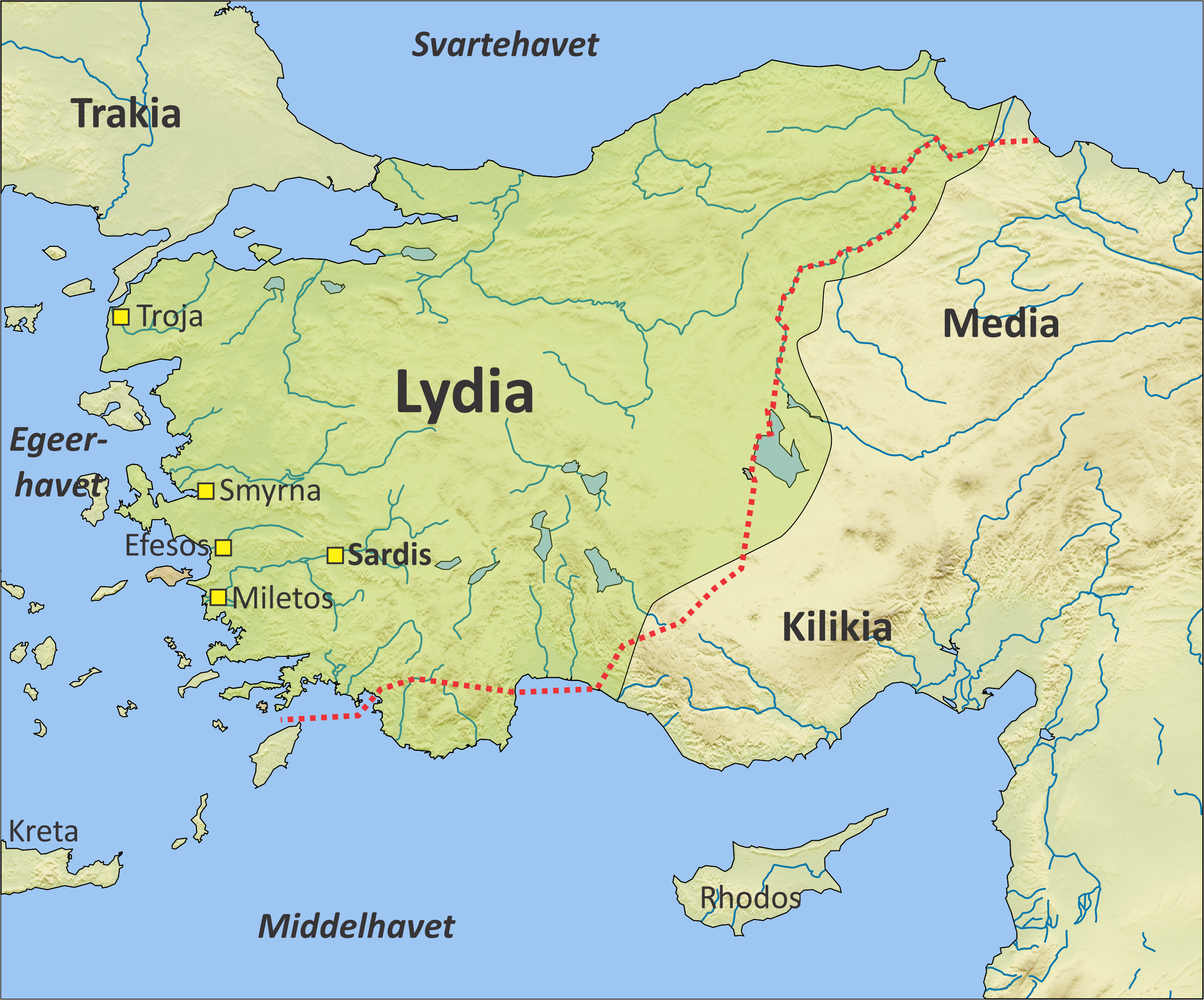 Ancient Lydia, based on info: [1] and here [2]. Green area the 6th century BC. The red line is the different border.